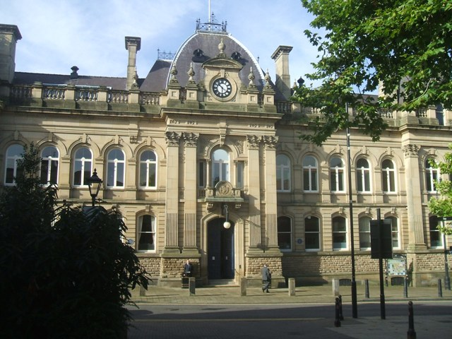 Old Town Hall - Magistrates Courts